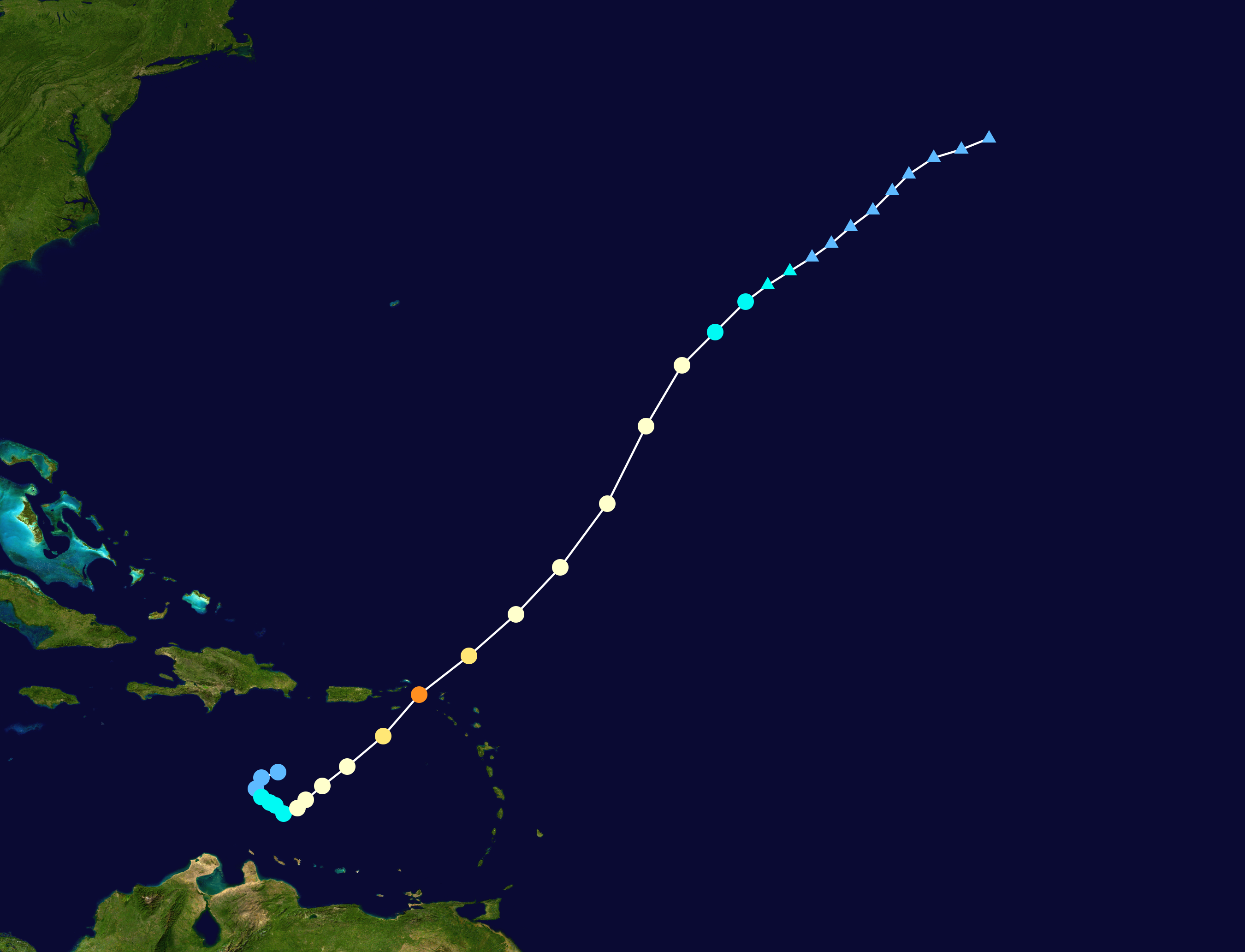 Track map of Hurricane Omar of the 2008 Atlantic hurricane season. The points show the location of the storm at 6-hour intervals. The colour represents the storm's maximum sustained wind speeds as classified in the Saffir–Simpson scale (see below), and the shape of the data points represent the nature of the storm, according to the legend below. Saffir–Simpson scale Tropical depression≤38 mph≤62 km/h Category 3111–129 mph178–208 km/h Tropical storm39–73 mph63–118 km/h Category 4130–156 mph209–251 km/h Category 174–95 mph119–153 km/h Category 5≥157 mph≥252 km/h Category 296–110 mph154–177 km/h Unknown Storm type Tropical cyclone Subtropical cyclone Extratropical cyclone / Remnant low / Tropical disturbance / Monsoon depression